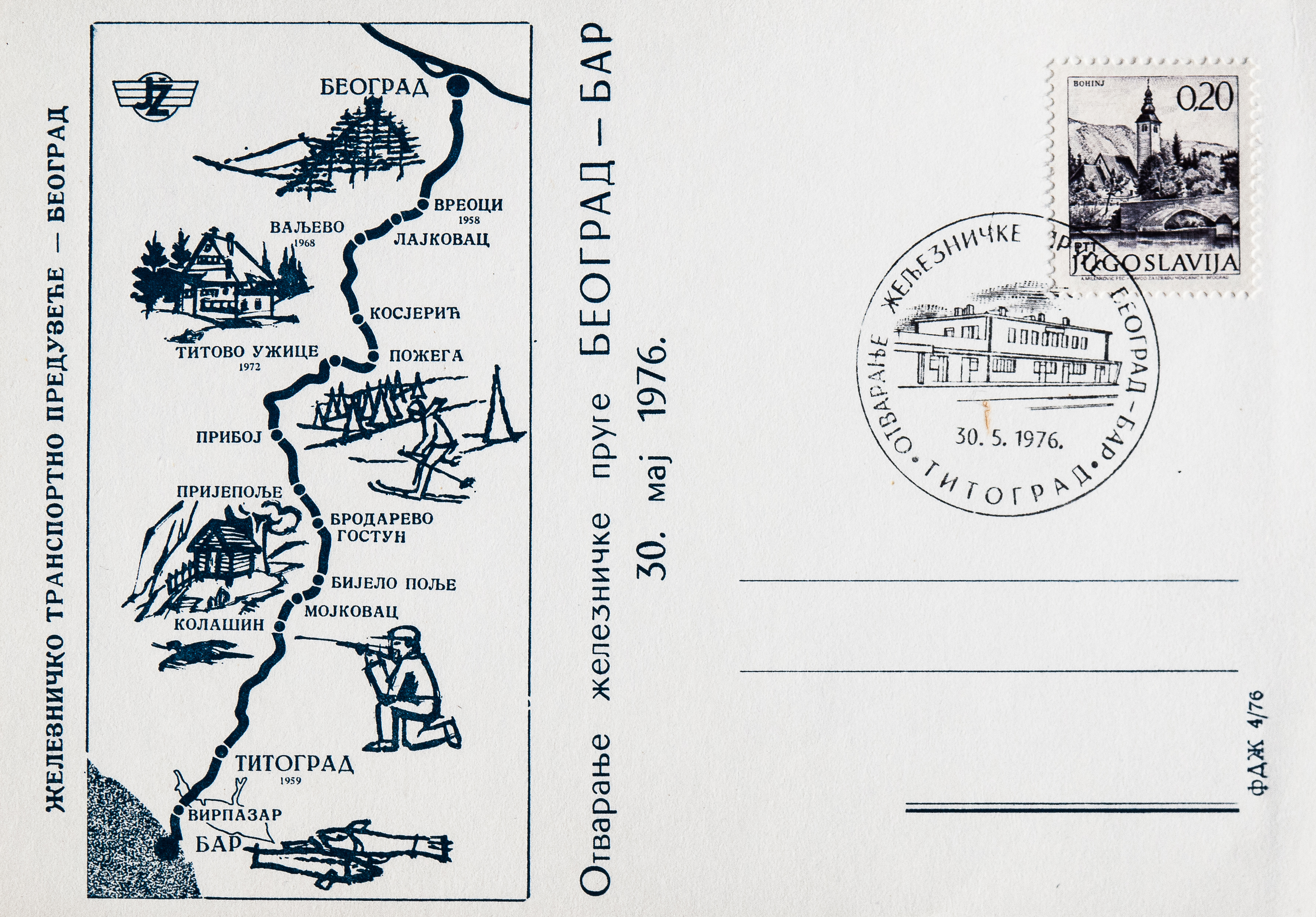 Yugoslavia post stamp from 1976, opening of Belgrade–Bar railway line